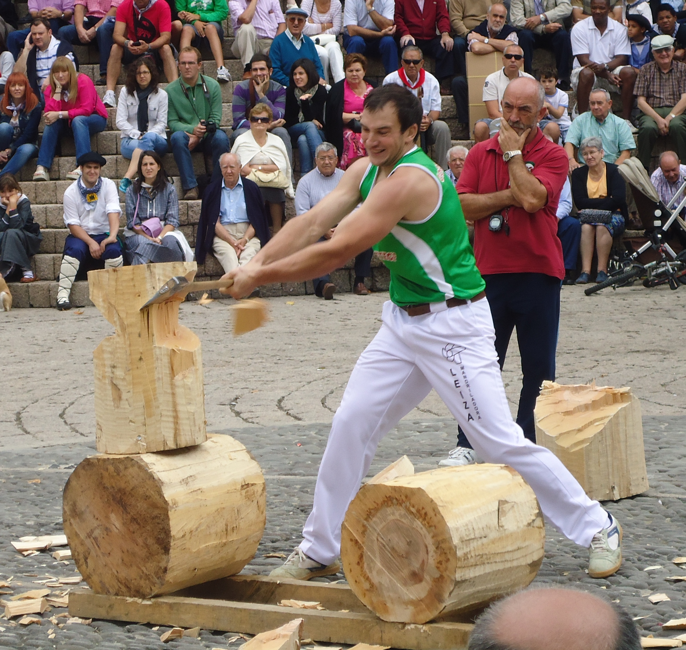 Aizkolaria (wood cutting sport) in Vitoria-Gasteiz (Araba/Álava, Basque Country)